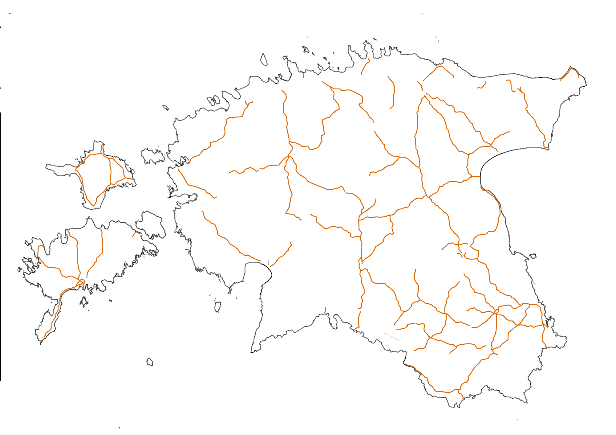 Estonian national support routes on a blank map.